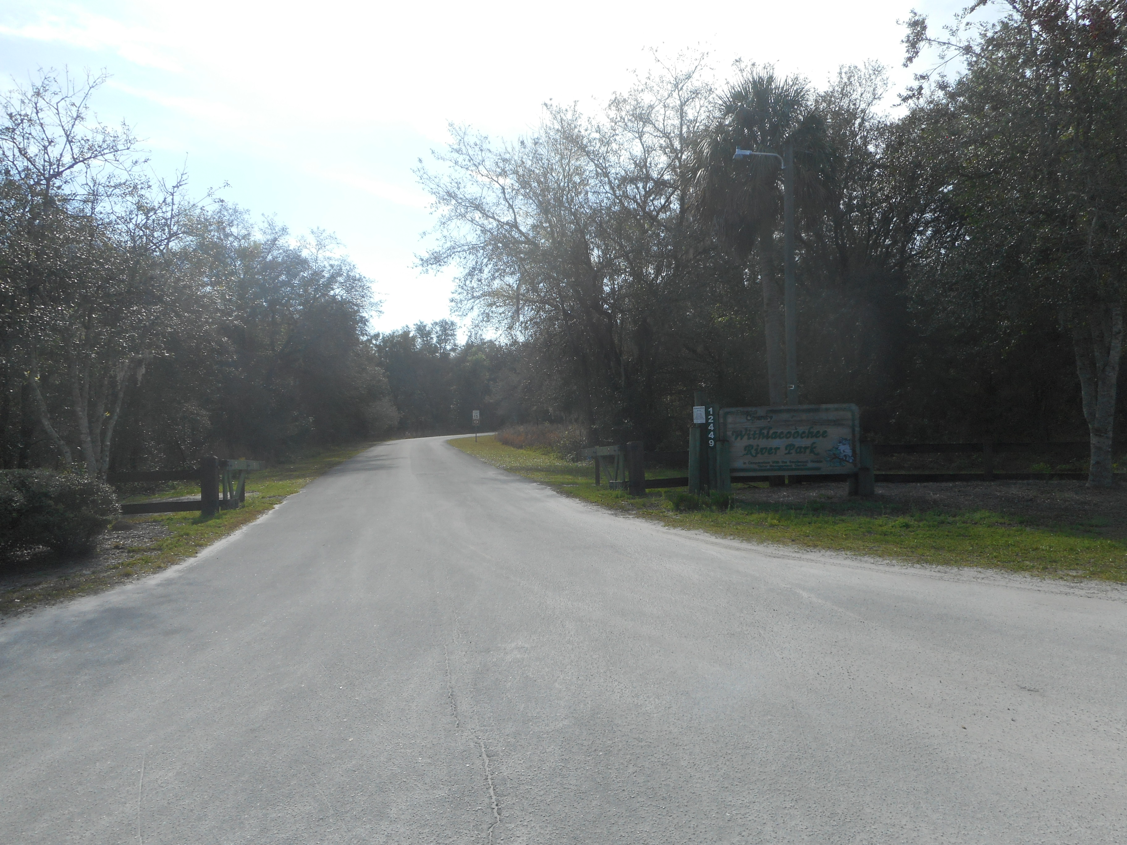 Front gate the Withlacoochee River County Park east of Dade City, Florida. The entrance is located on Auton Road, but the address is for the driveway, which is named Withlacoochee Boulevard; more specifically 12449 Withlacoochee Boulevard.